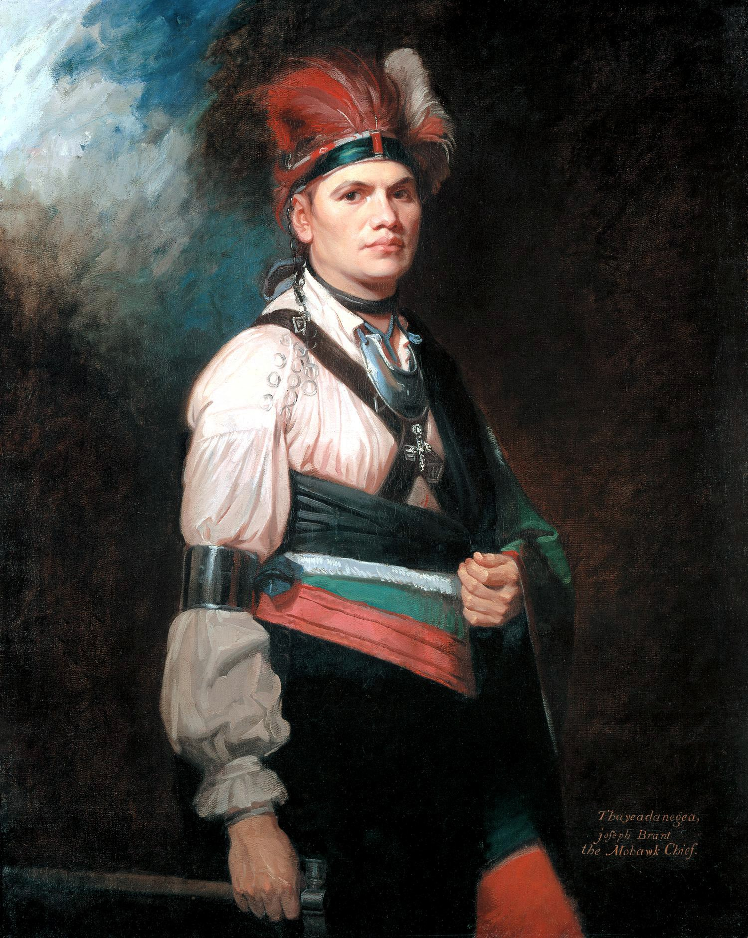 Brant was visiting England with Guy Johnson at age 33 or 34 when Romney painted him in his London studio. Brant is shown wearing a white ruffled shirt, an Indian blanket, a silver gorget, a plumed headdress and carrying a tomahawk.